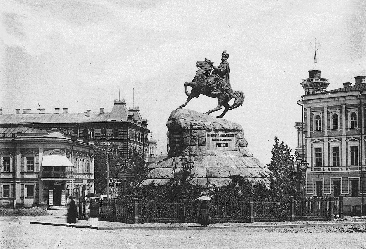 Monument to Bogdan Khmelnitsky in Kiev, Russian Empire.